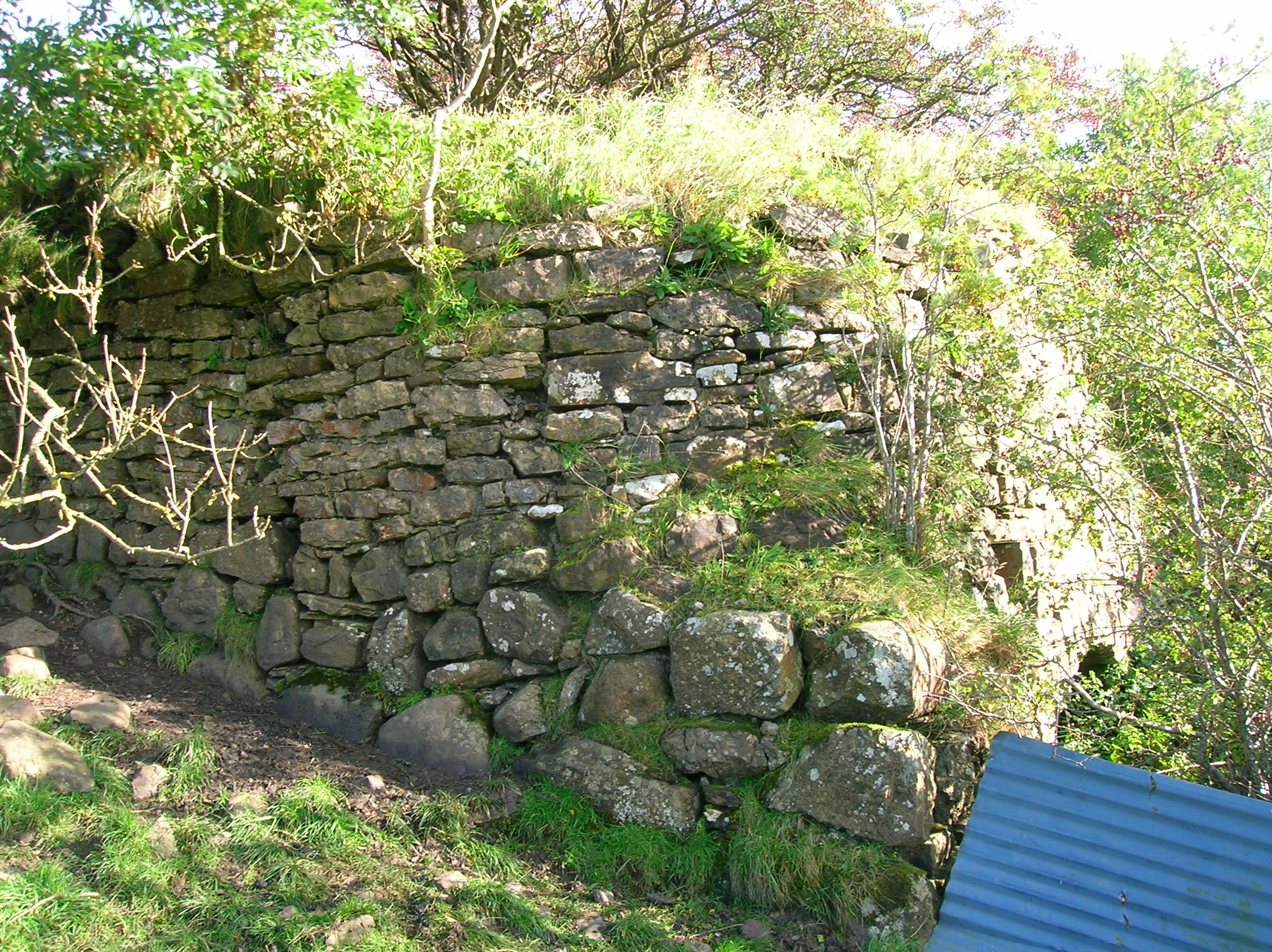 Flashwood limekin - side view.